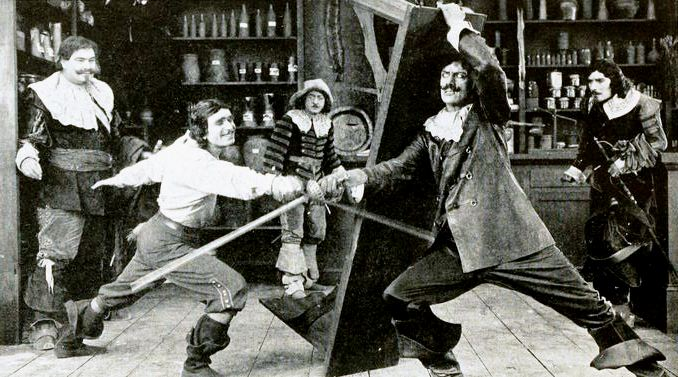 Still from the American film The Three Musketeers (1921) with George Siegmann, Douglas Fairbanks, Eugene Pallette, Charles Belcher, and Léon Bary, on page 24 of Peter Milne, Motion Picture Directing; The Facts and Theories of the Newest Art (1922).